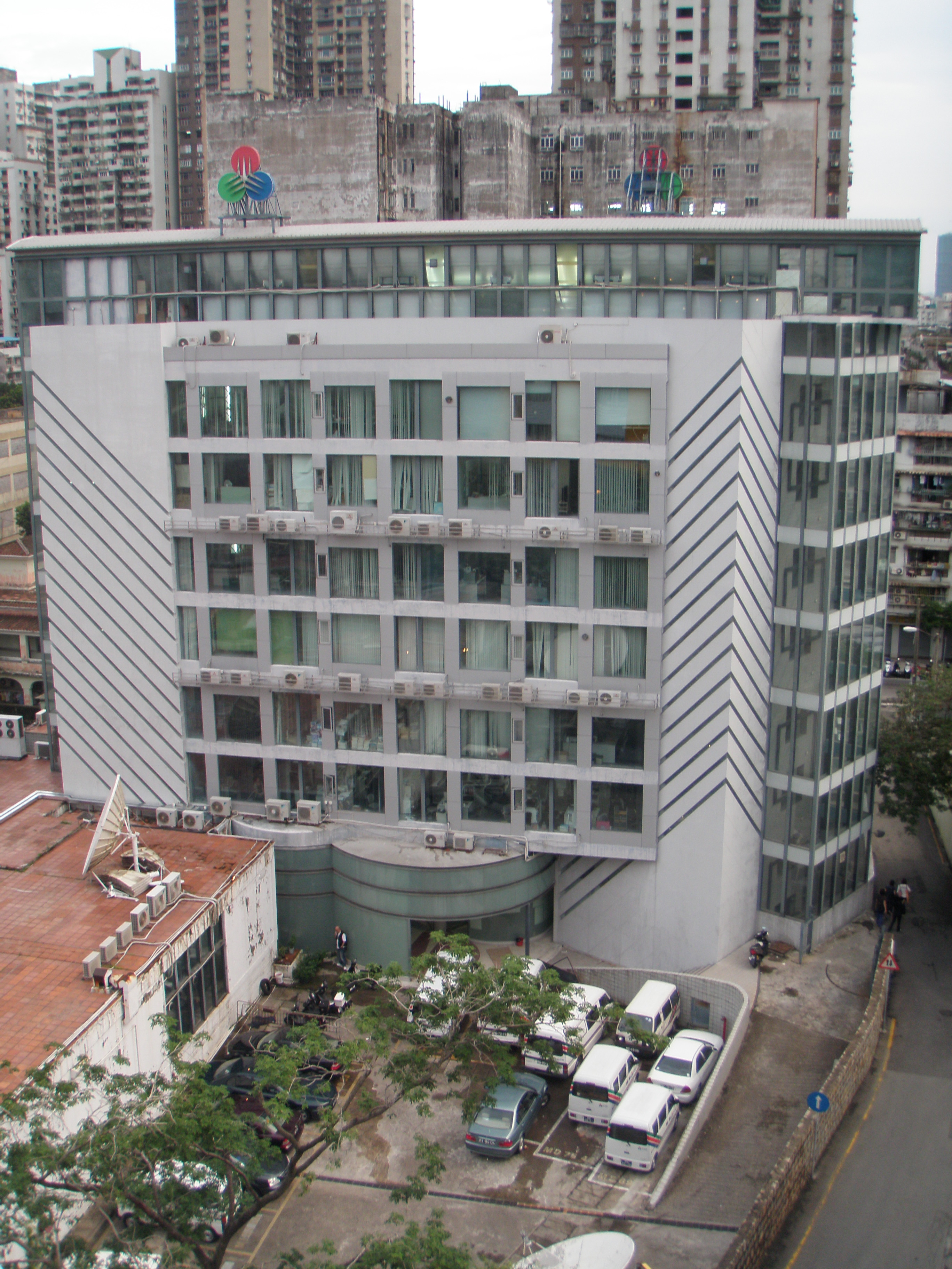 TDM (Teledifusão de Macau) Building